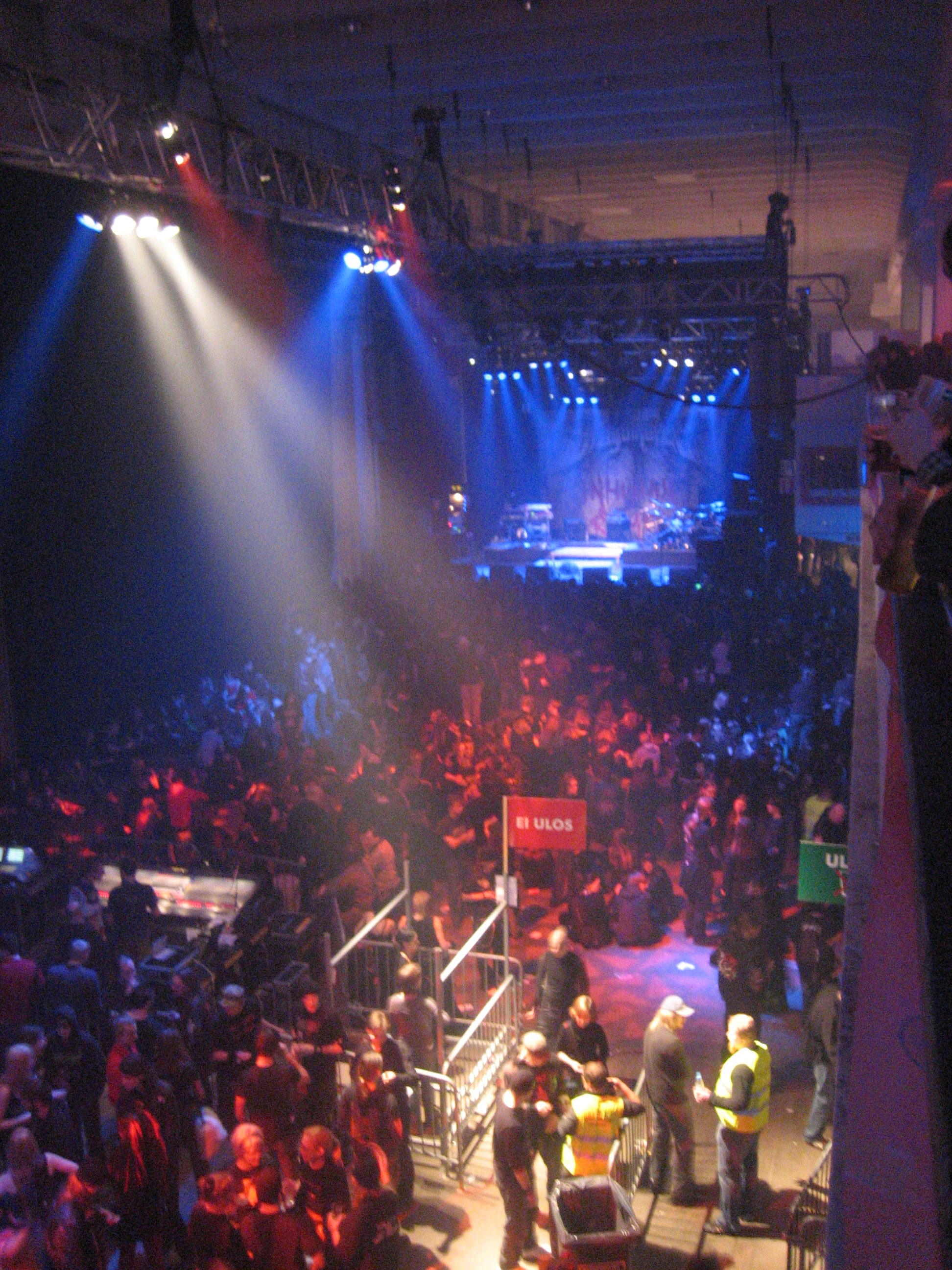 Finnish Metal Expo 2007